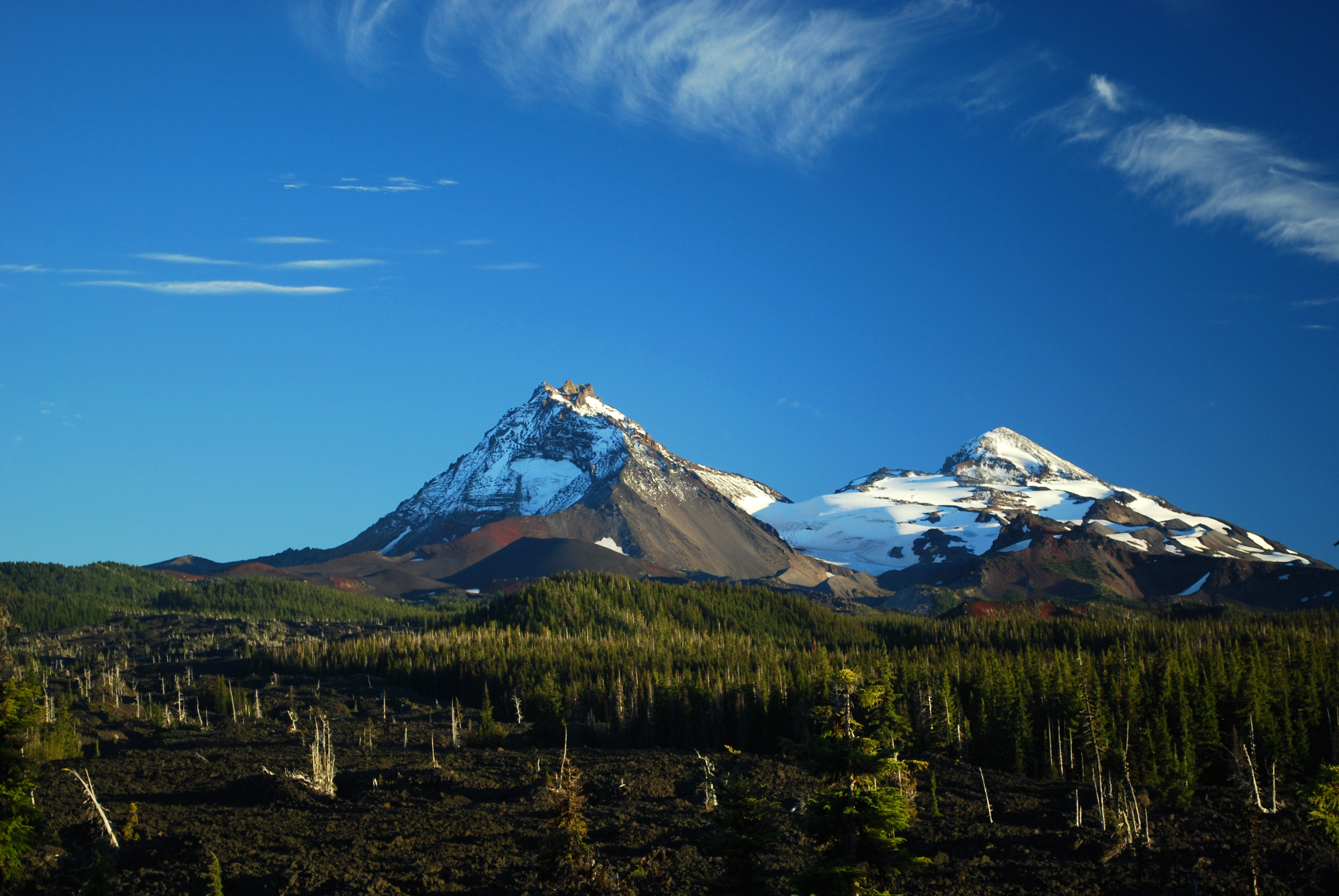 Only North Sister (left) and Middle Sister can be seen.